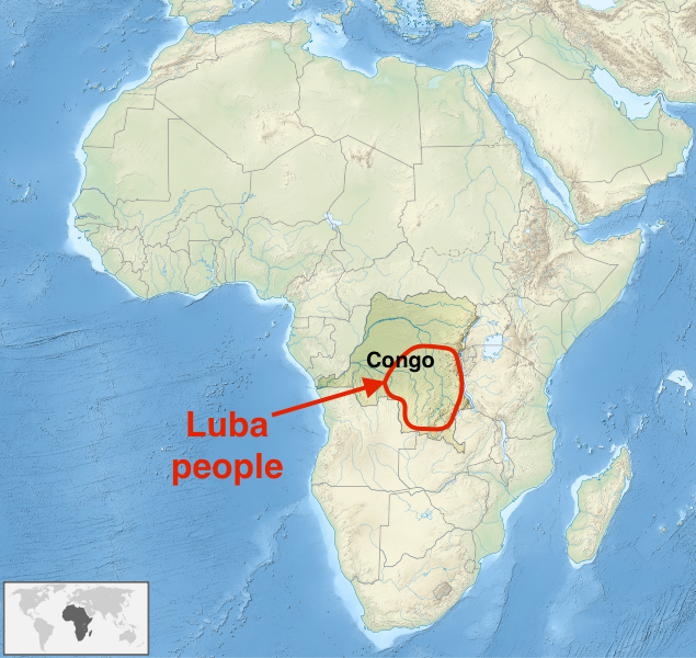 Origins and geographical distribution of Luba people, Democratic Republic of Congo This is a derivative work on the following wikimedia file: File:Democratic Republic of the Congo in Africa (relief).svg